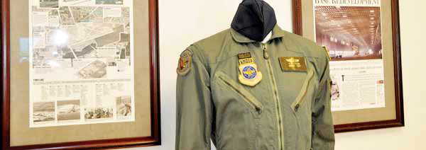 The flight suit of the first female aircraft commander, Lt. Col. Kathy La Sauce, adorns a mannequin at the new Norton Air Force Base Museum. (Photo byScott Johnston)